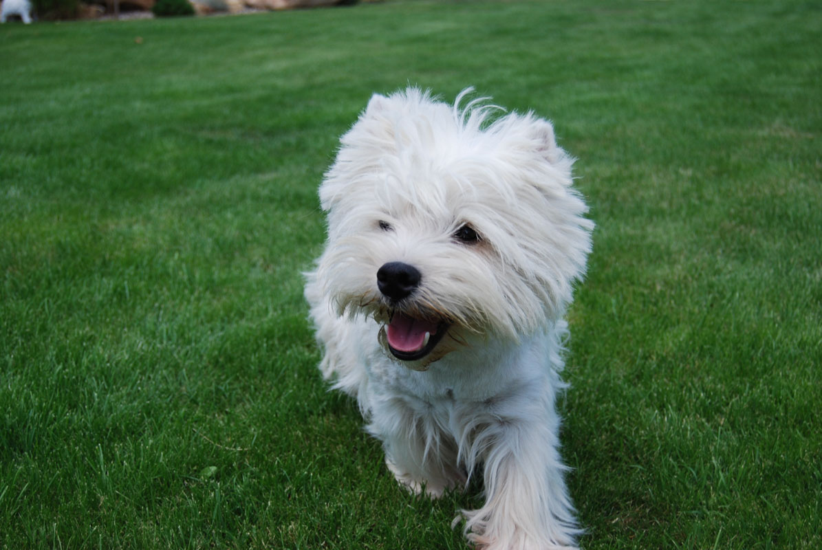 West highland white terrier - westie